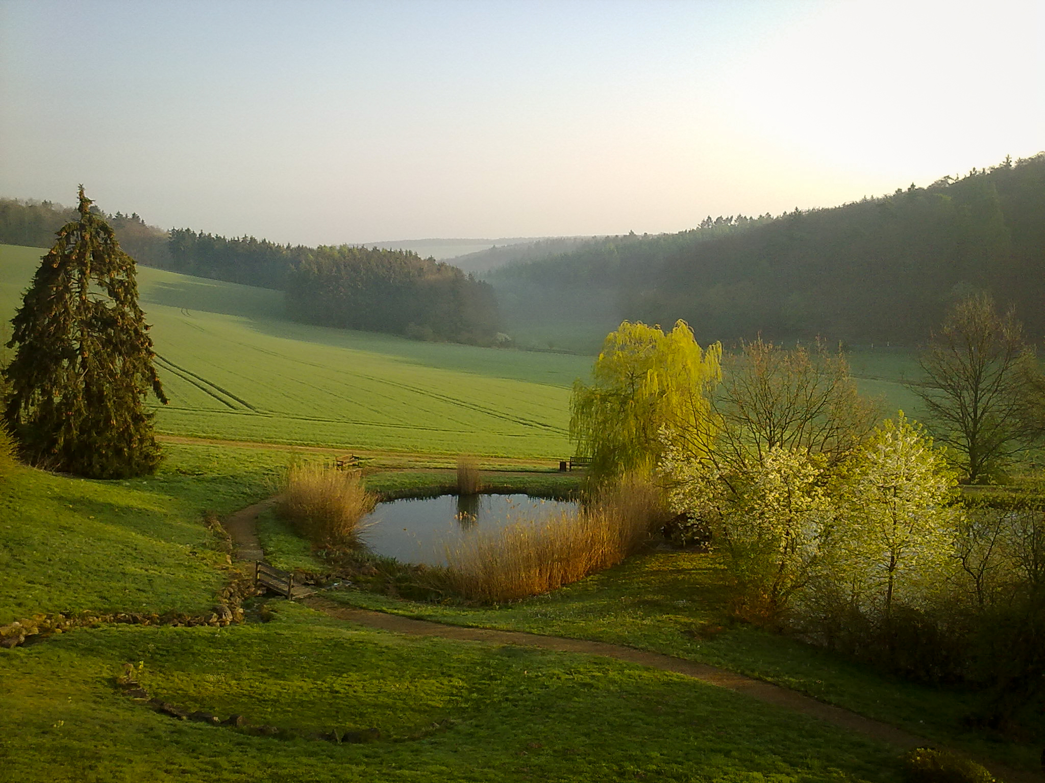 Georgenthal, Taunus, Germany